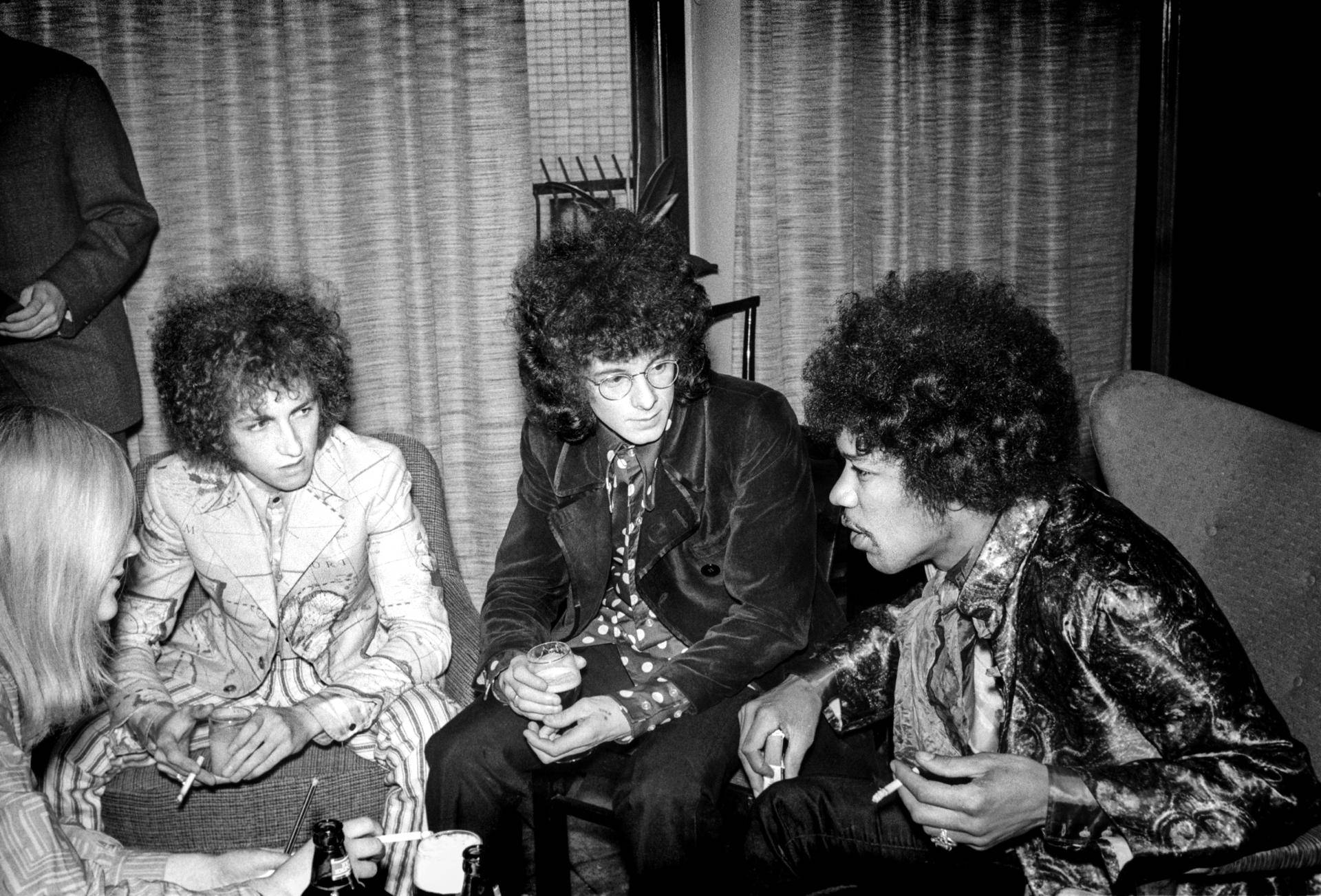 The Jimi Hendrix Experience performed at the Culture House in Helsinki. Here seen before or after the concert.